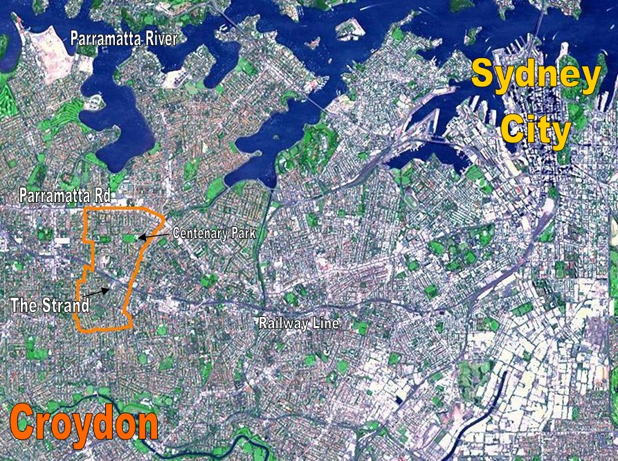 Location Map for the suburb of Croydon, NSW based on NASA satellite map. Modified to identify suburb boundaries and identifiable landmarks. Original NASA image number: PIA03498